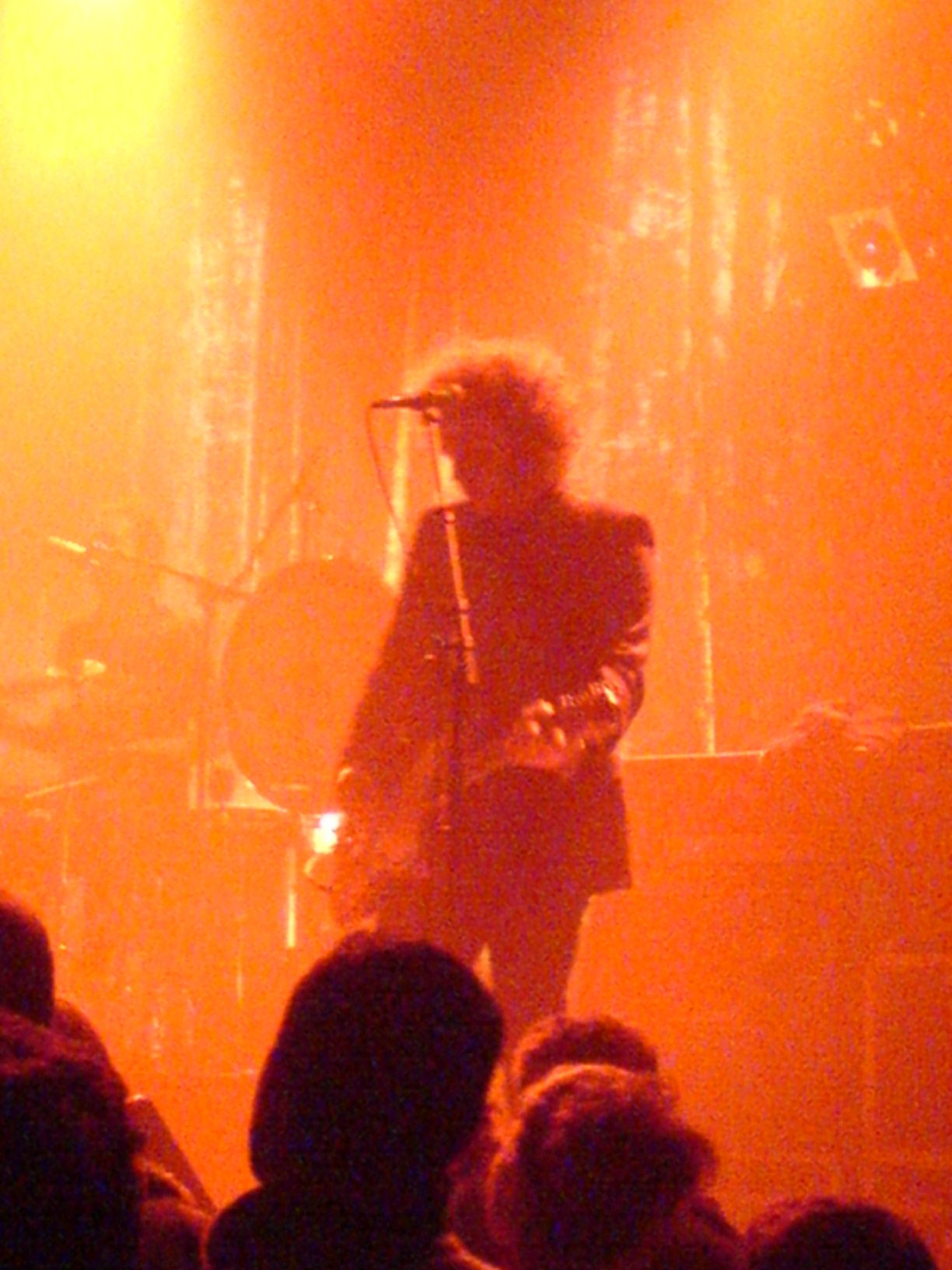 Robert Burås - Taken with a SE K750i Camera Phone